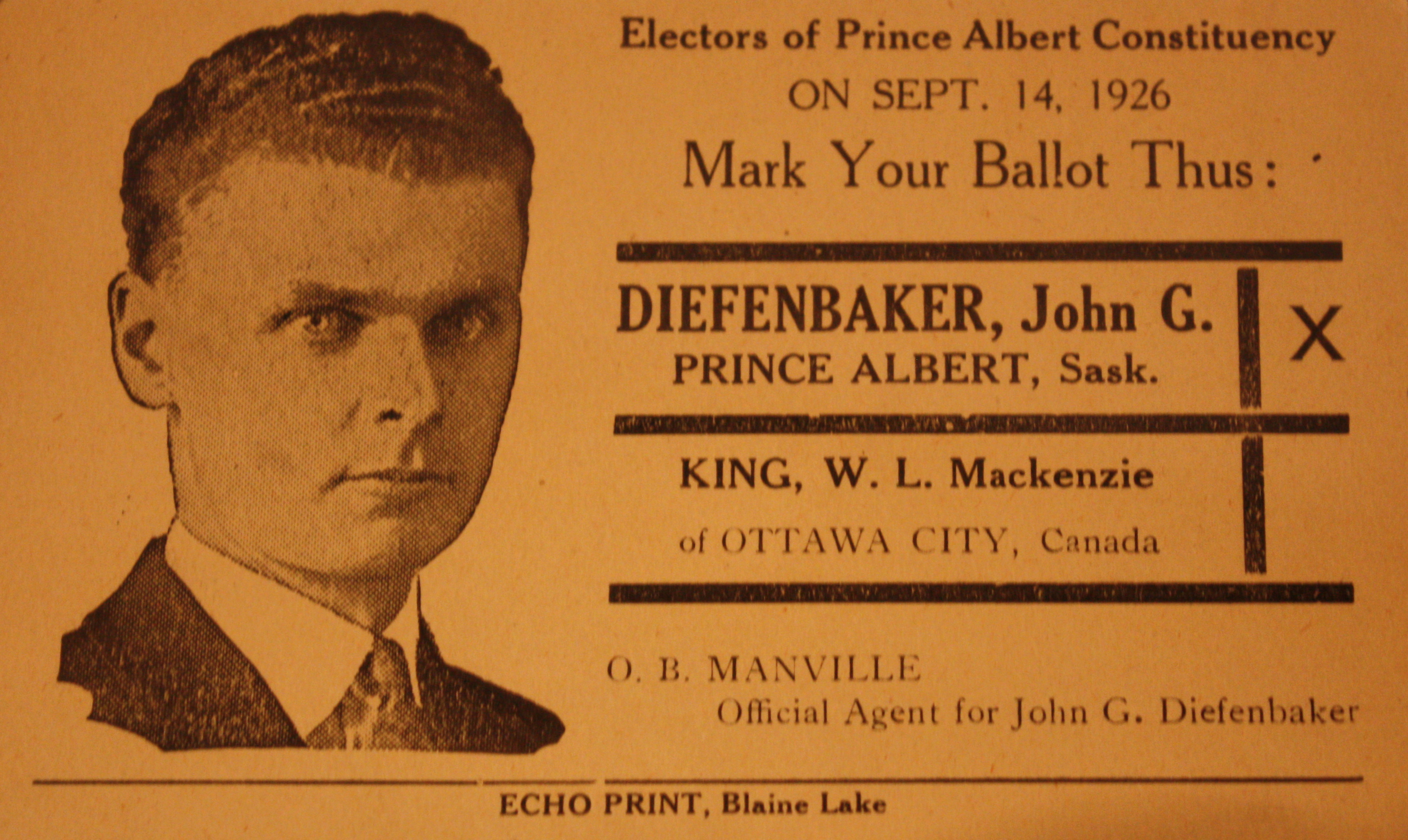 Election handout for John Diefenbaker, 1926